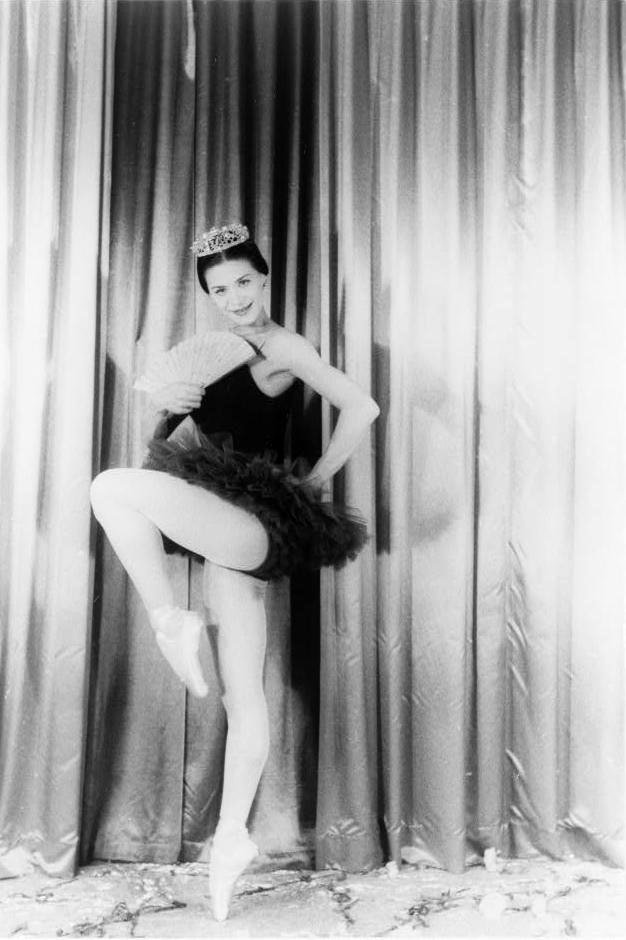 Melissa Hayden, Canadian ballet dancerPortrait of Melissa Hayden, in ballet costume by Kariaska